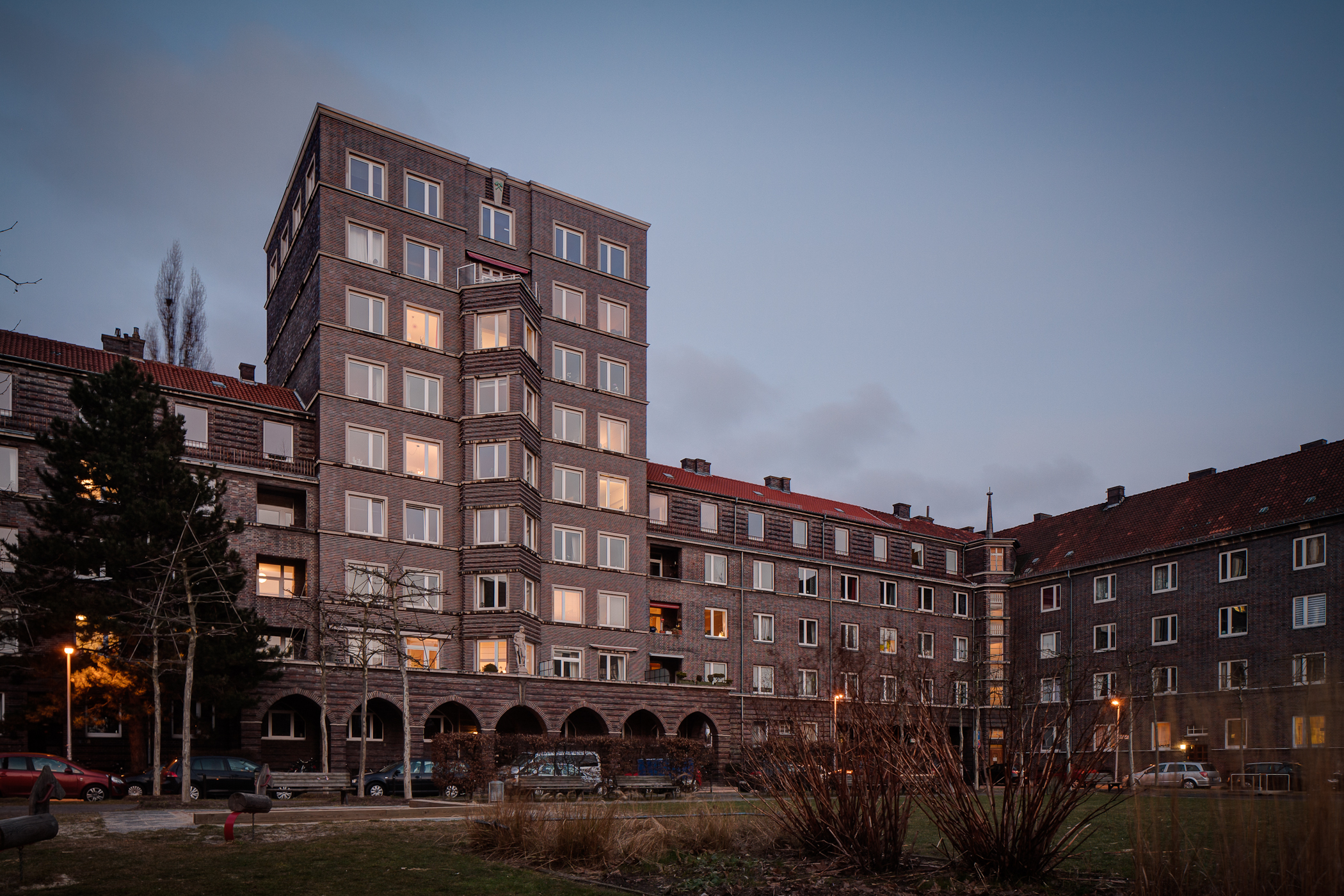 "Glueckauf" (= good luck) high-rise located in Hanover, Germany.